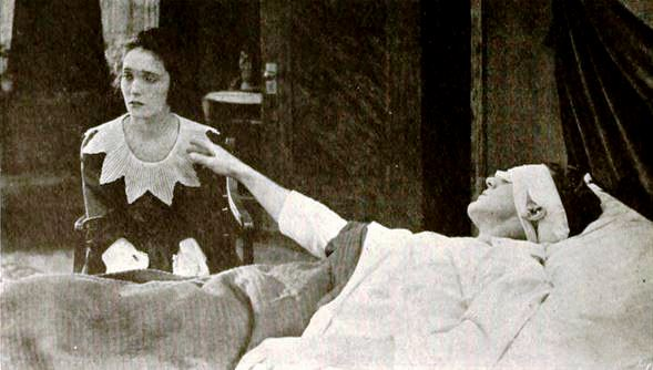 Still from the American drama film Whom the Gods Would Destroy (1919) with Pauline Starke and an unidentified actor, on page 820 of the May 10, 1919 Moving Picture World.